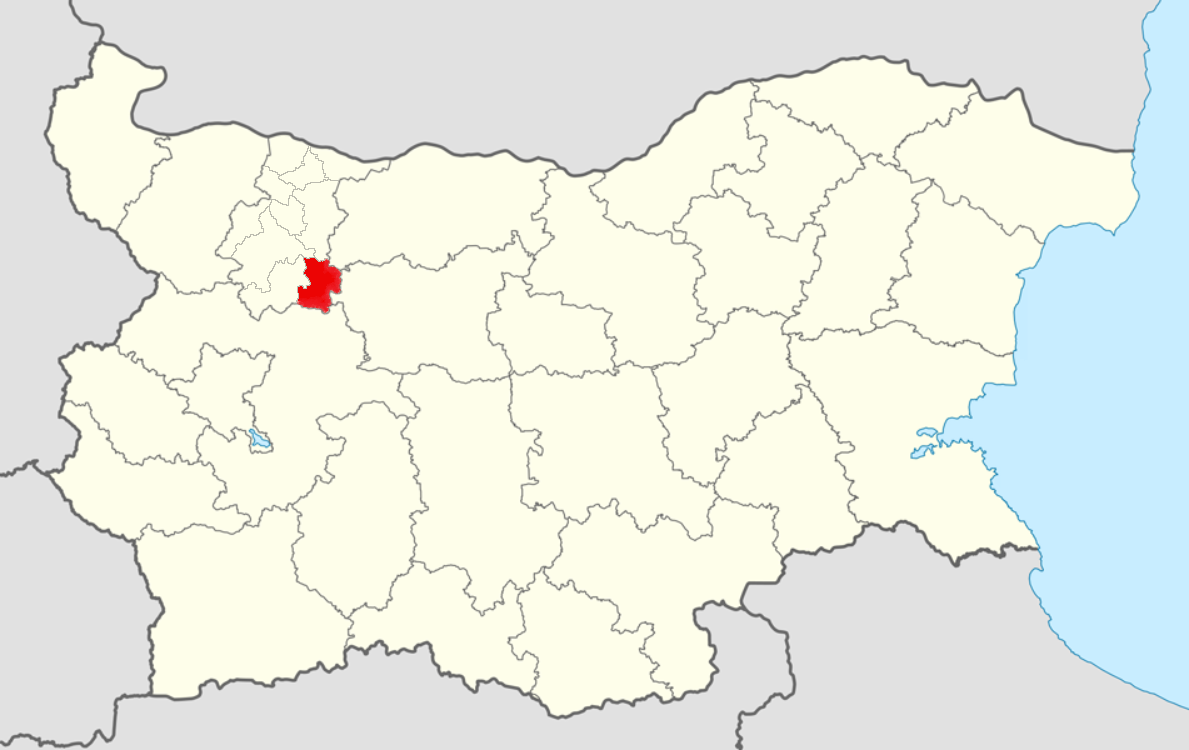 Location map of Roman Municipality within Bulgaria and Vratsa Province.